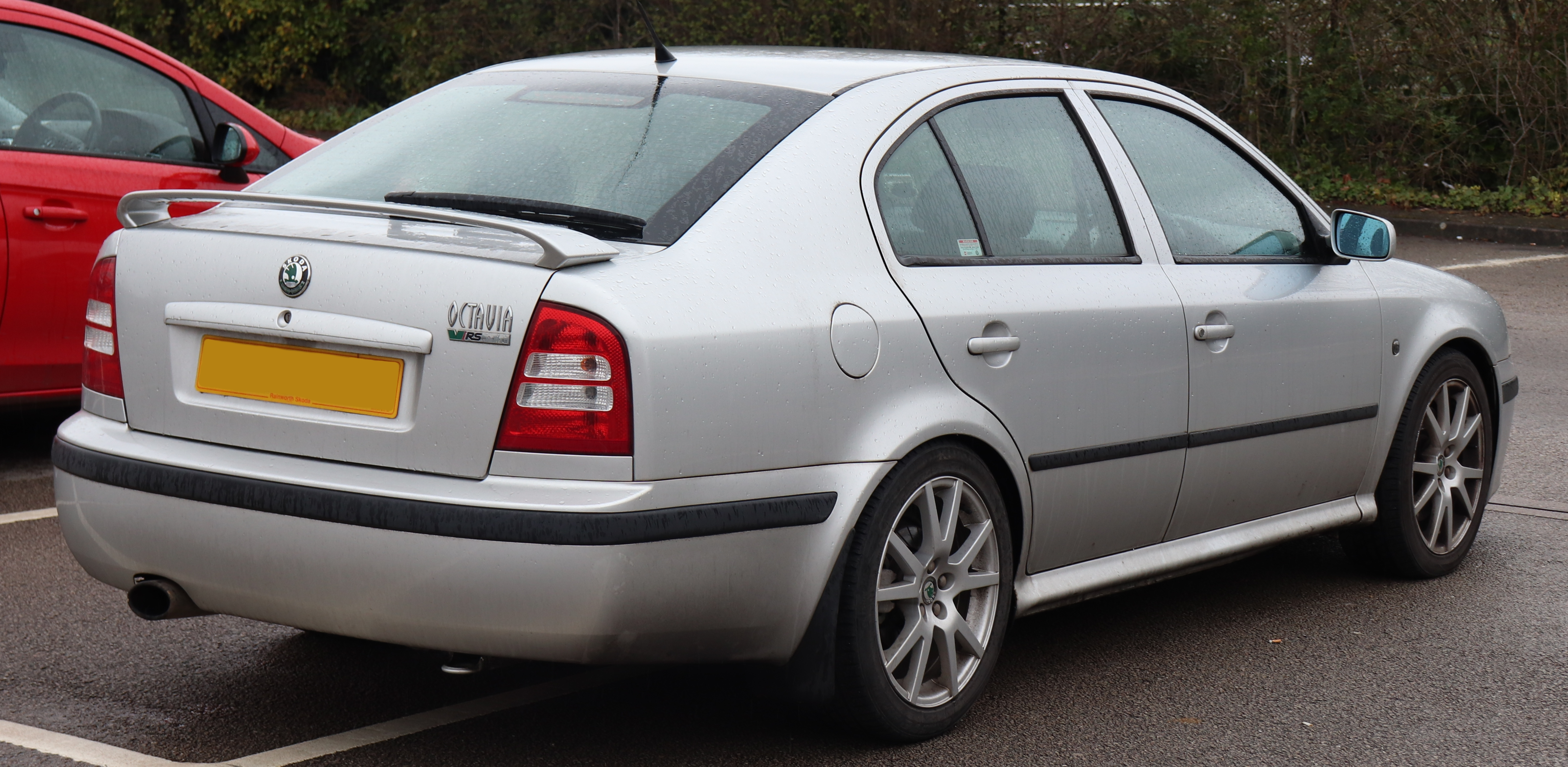 2005 Skoda Octavia VRS 1.8 Rear Taken in Warwick